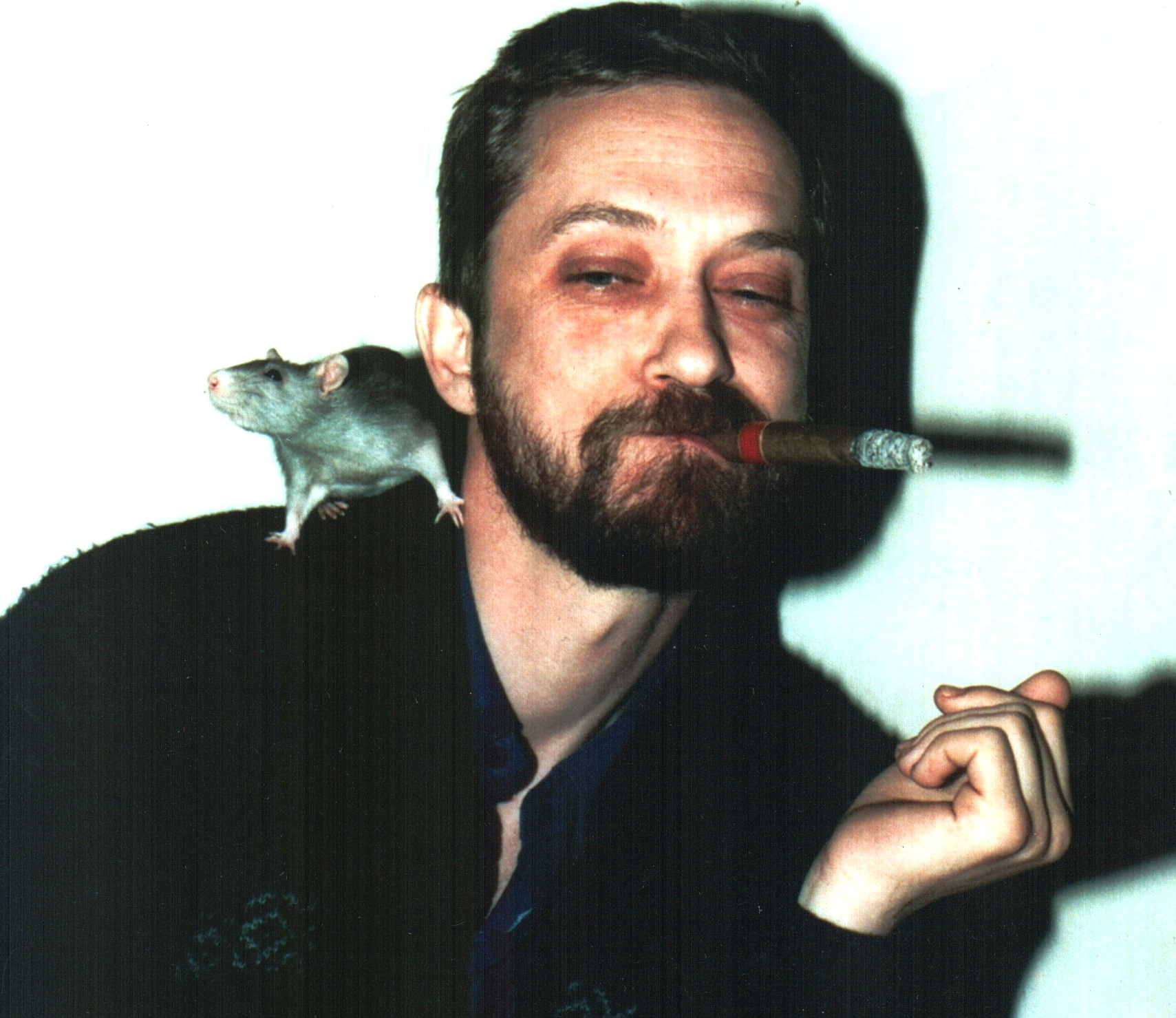 Grachev V. G.